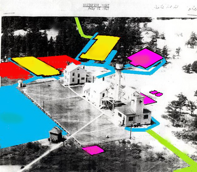 Aerial view of the Whitefish Point Light Station on July 21, 1947. Colored areas added to denote changes from 1947 to present.